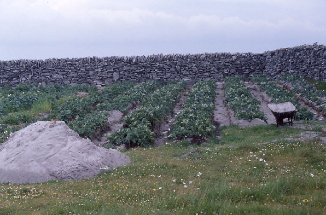 Inisheer: lazy beds with potatoes. This is still the method employed (of necessity) to cultivate roots crops on Inisheer, using seaweed and sand in ridges within fields encircled with stone walls.